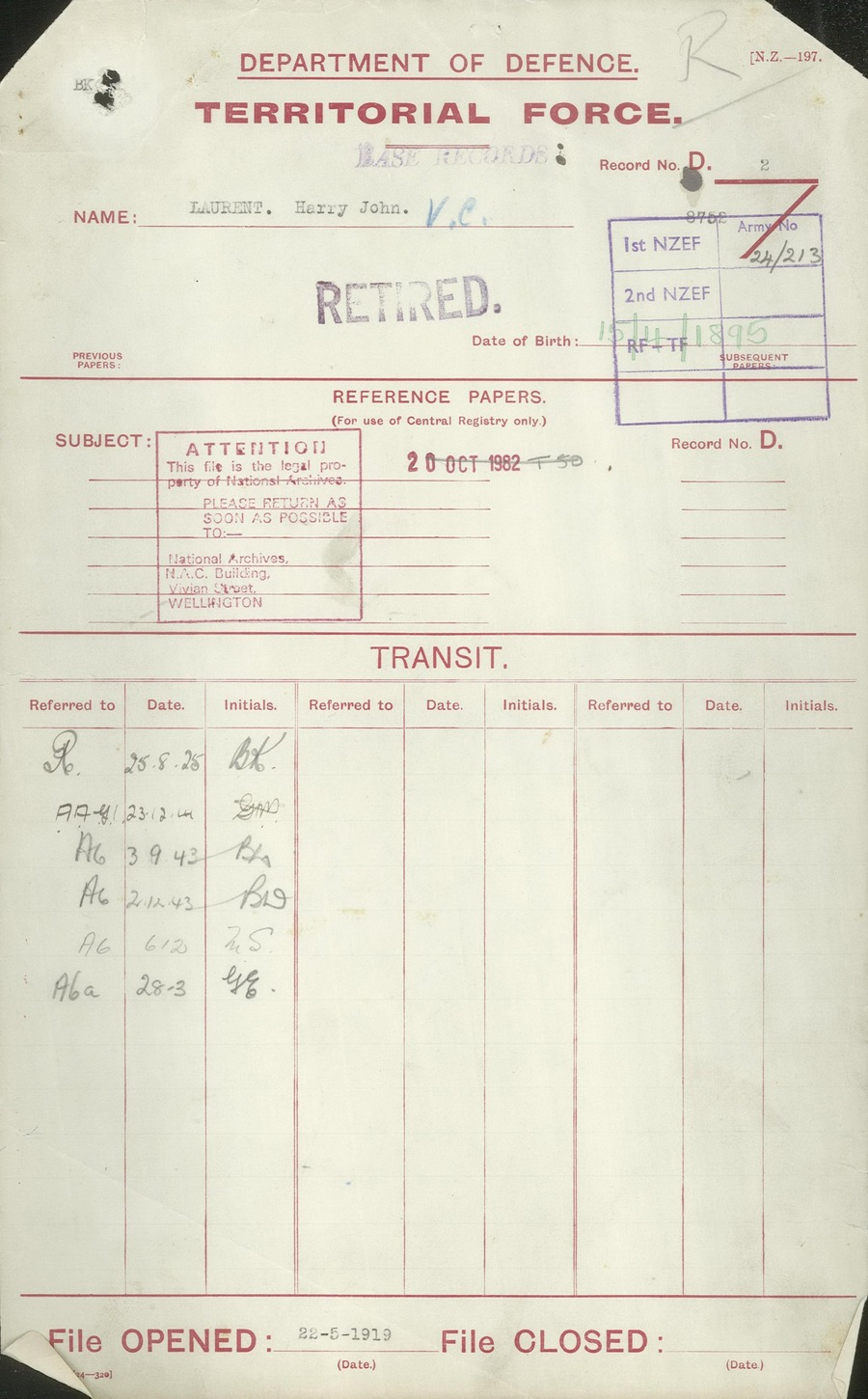 Personnel file (1915 - 1949) of Harry John Laurent. Served during WWI & WWII in the New Zealand Army. Recipient of the Victora Cross (Gallantry Medal). Archives New Zealand Reference: AAAL 18806 W478 2